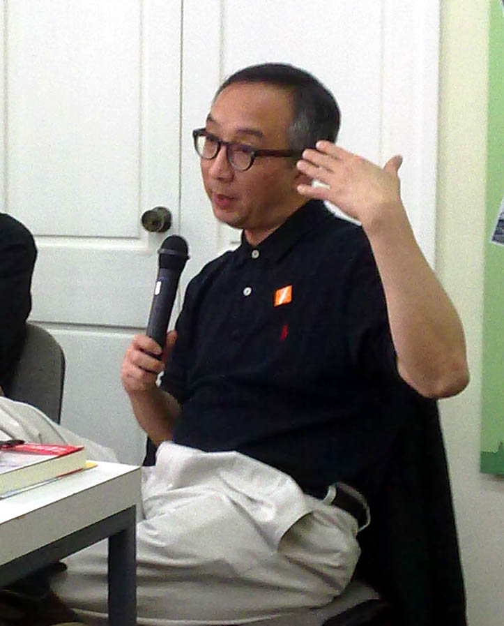 Prof. Lui Tai Lok